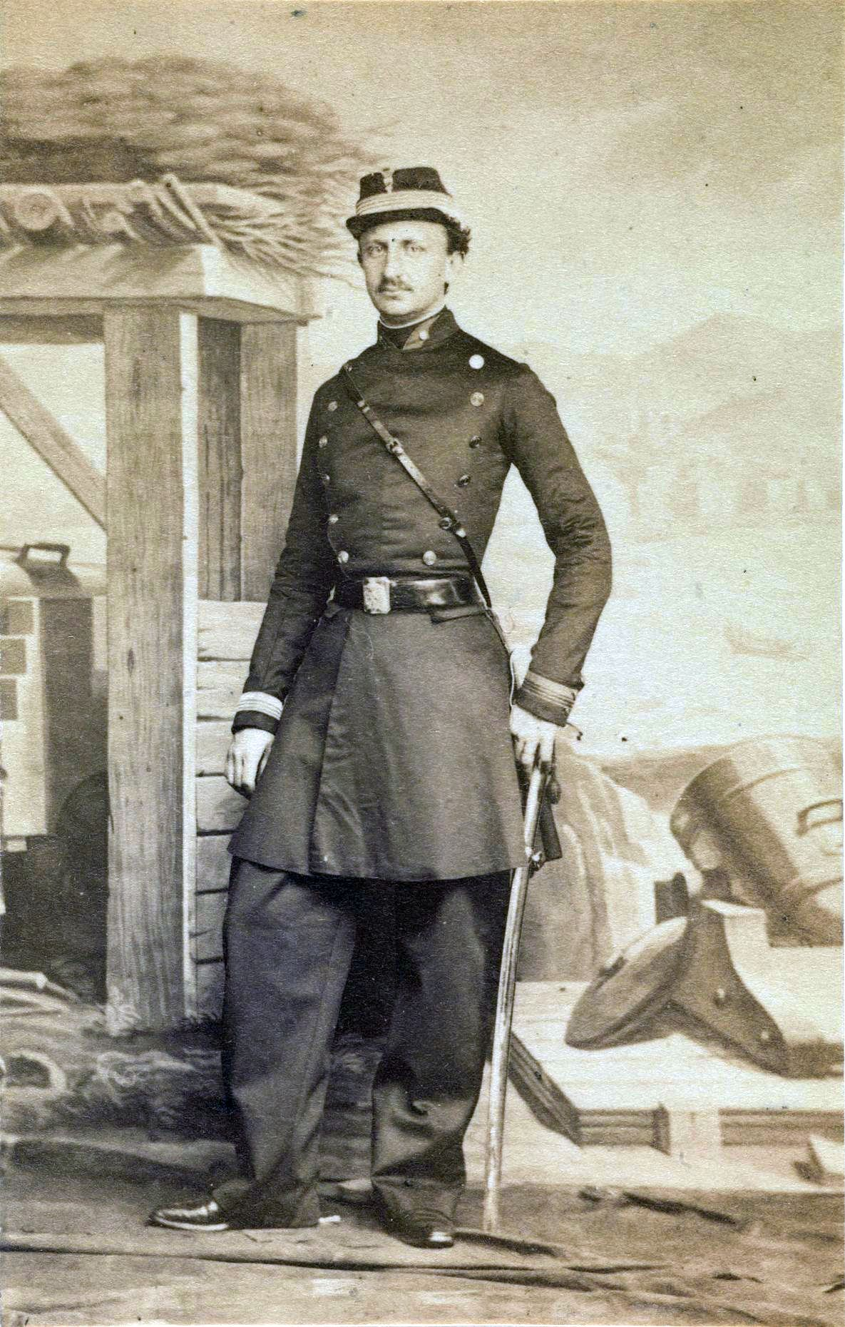 Pierre Petit (1832-1909) - King Francis II of the Two Sicilies (1836-1894). Recto Verso Cropped This is a retouched picture, which means that it has been digitally altered from its original version. Modifications: crop and restore. The original can be viewed here: Petit,_Pierre_(1832-1909)_-_Francesco_di_Borbone.jpg. Modifications made by F l a n k e r.